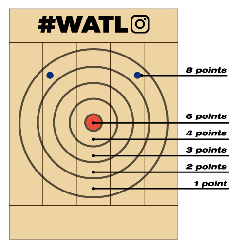 The World Axe Throwing League Target style with the points labeled